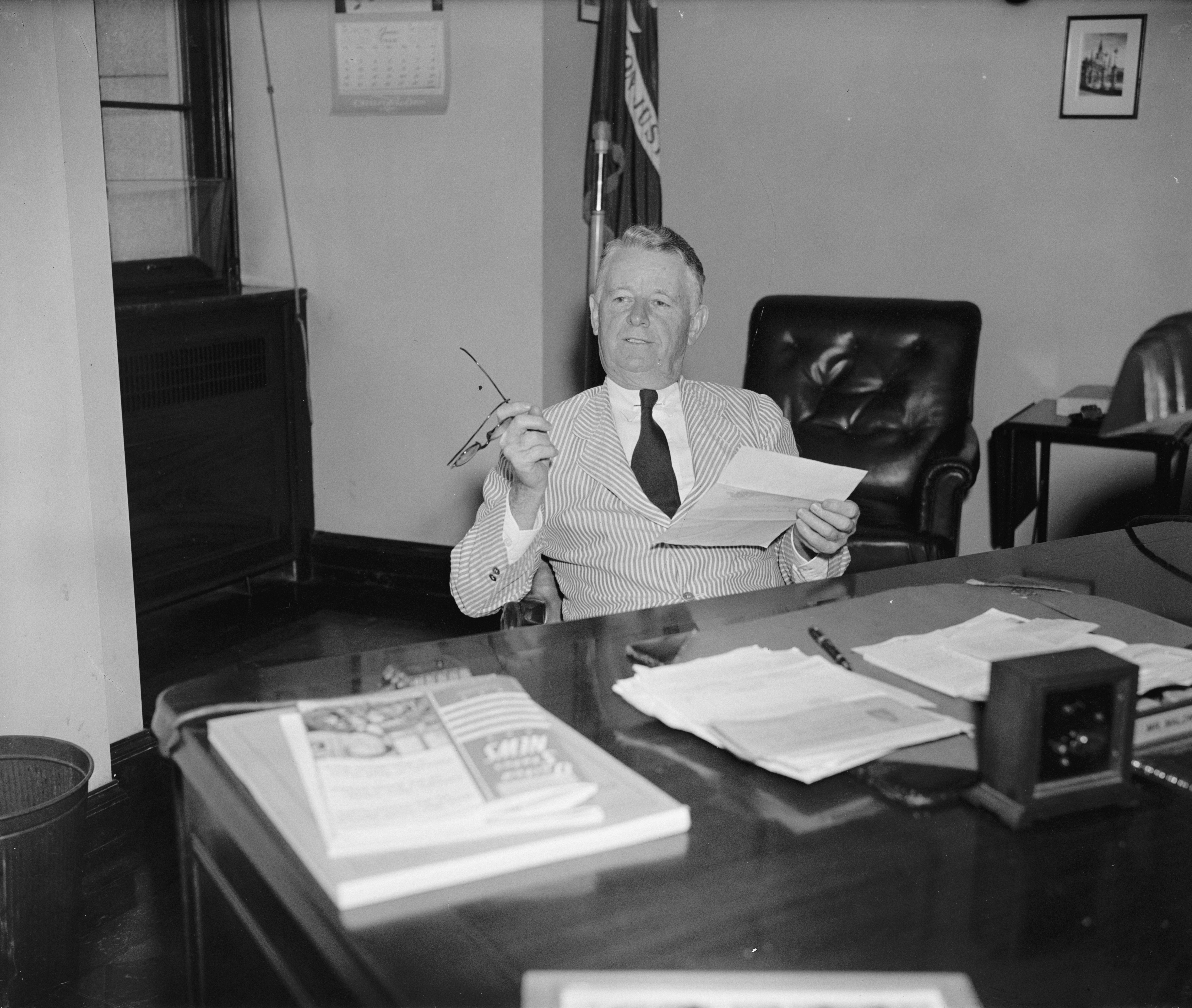 Paul H. Maloney, US Representative from Louisiana